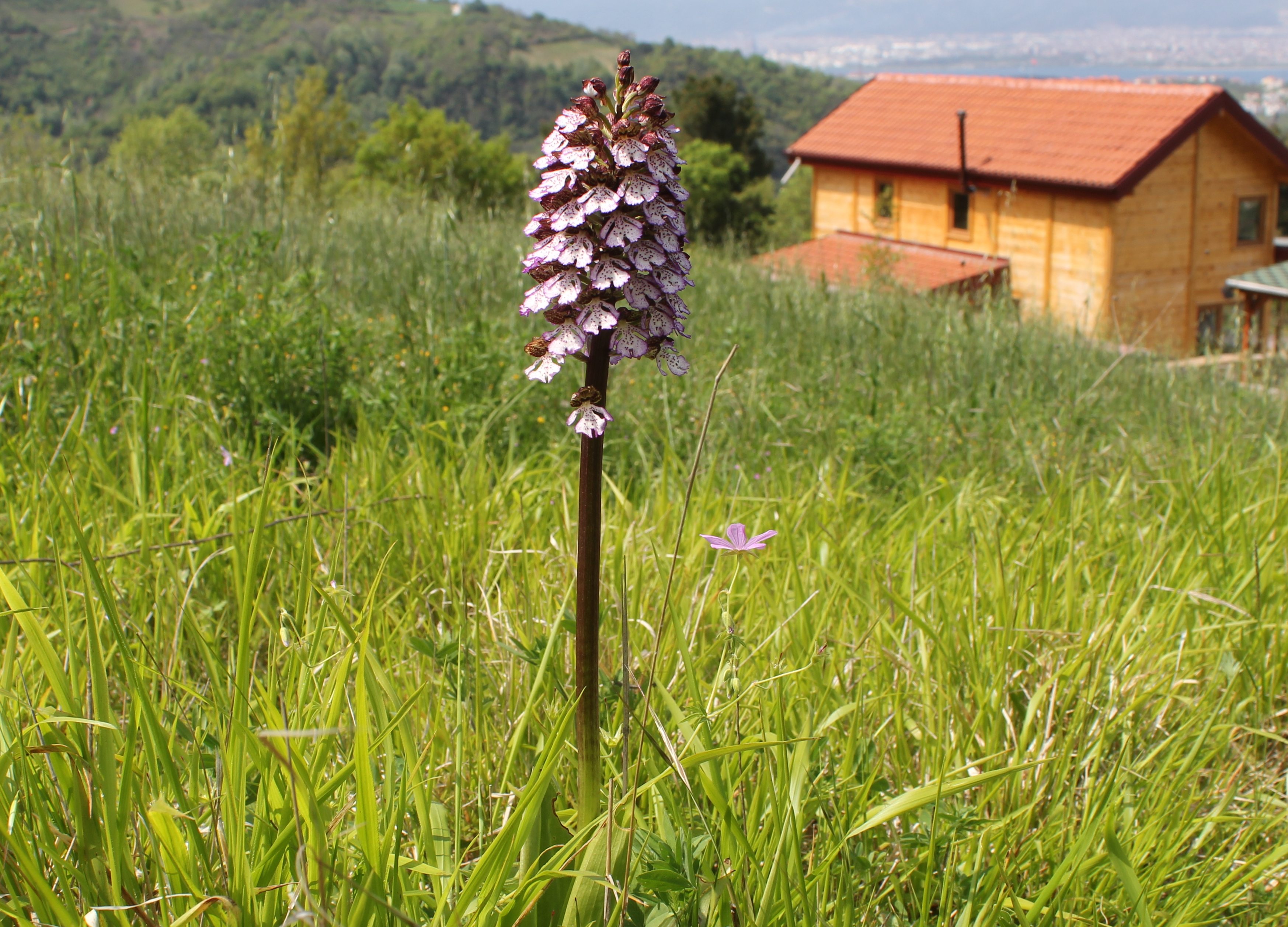 Orchis purpurea scape